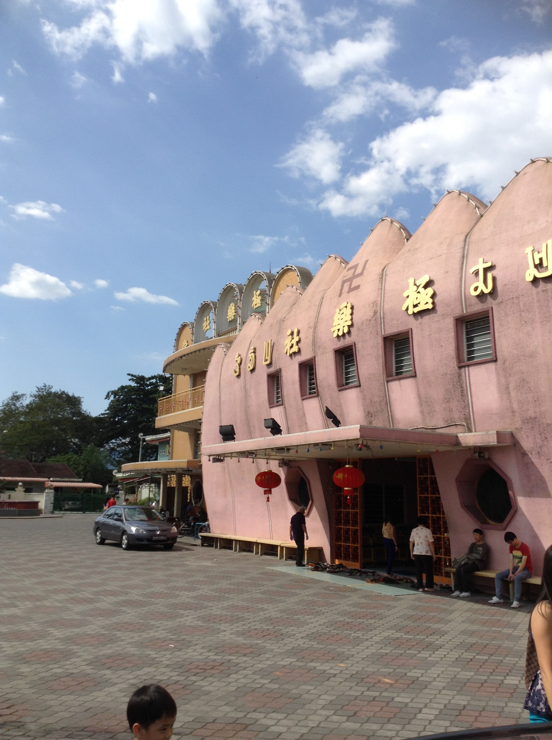 Photo taken in Kek Look Seah Temple during Chinese New year 2014